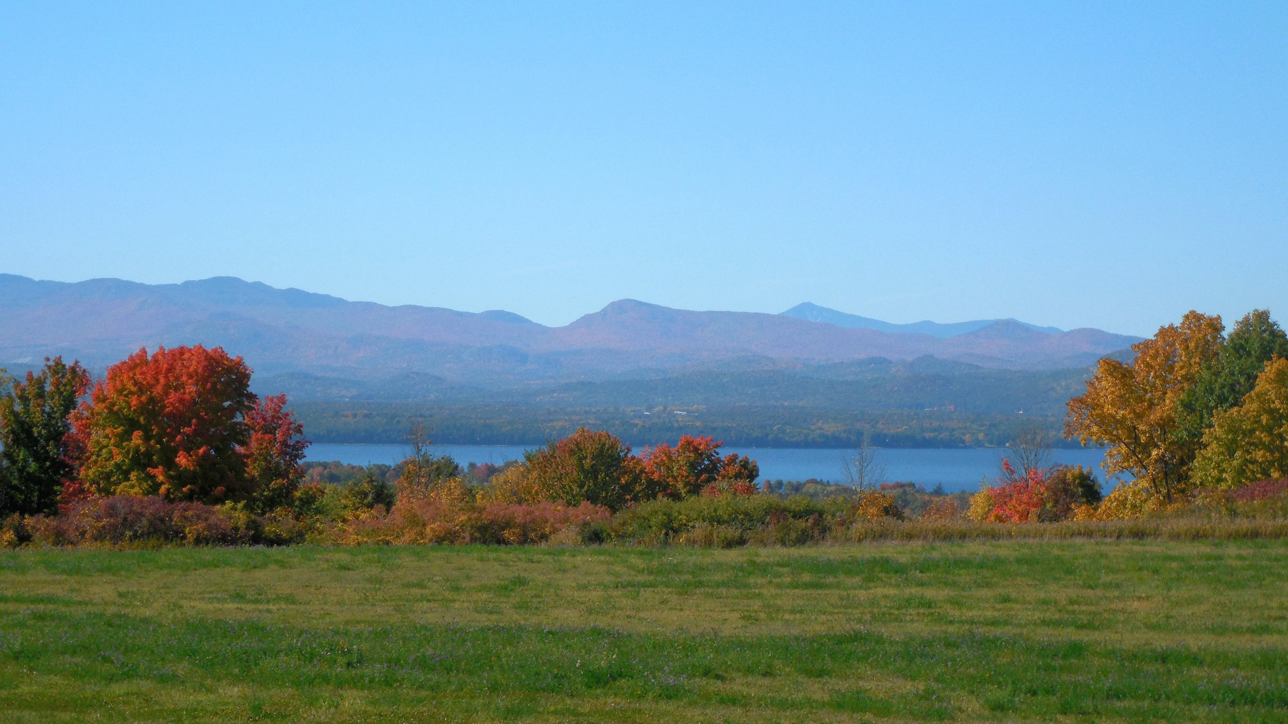 View of the Adirondack Mountains and Lake Champlain from US Route 7, Charlotte, Vermont, October 2016 (westward view)